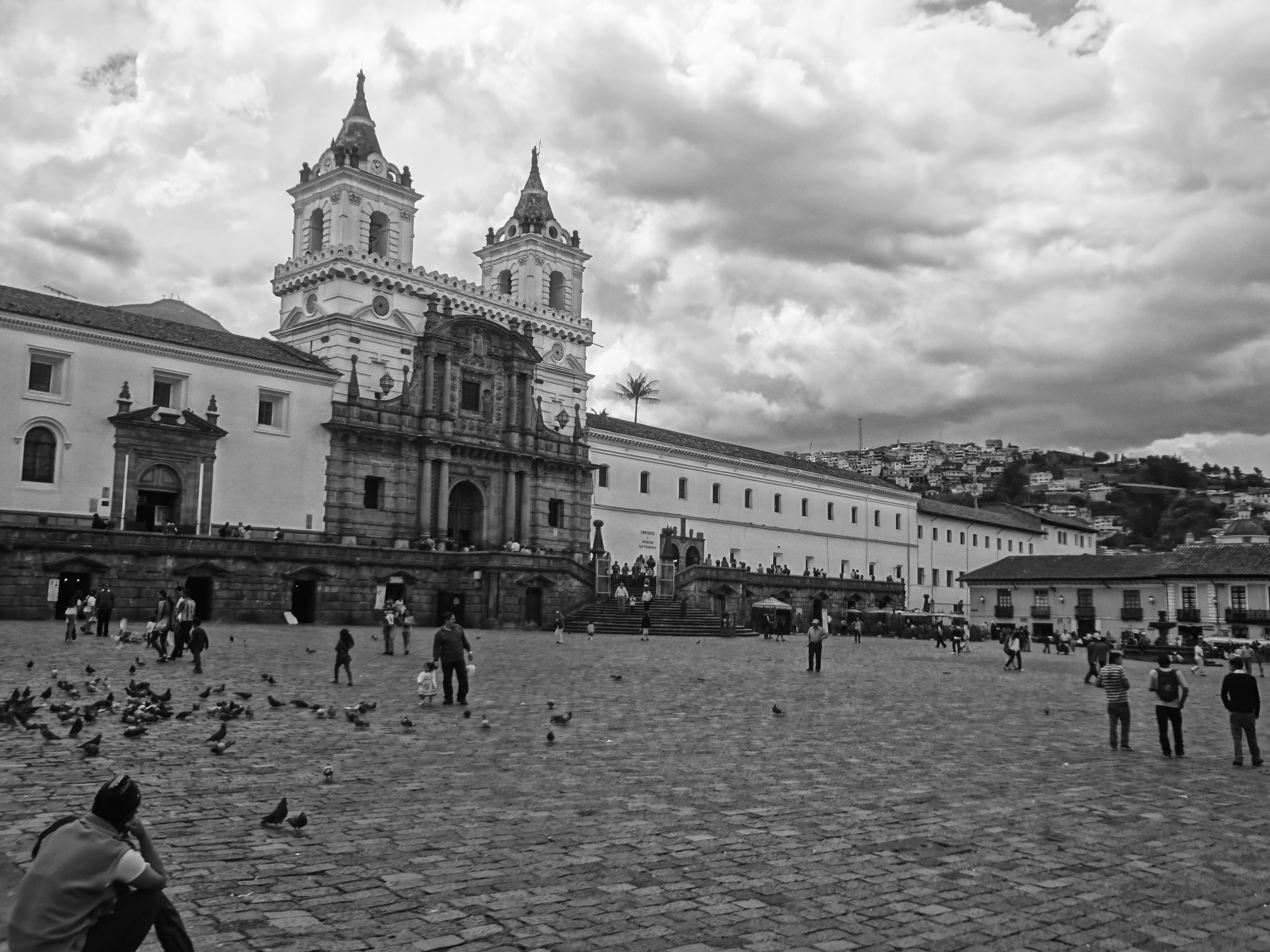 Church and Convent of St. Francis in the Historic Center of Quito - World Heritage Site by UNESCO